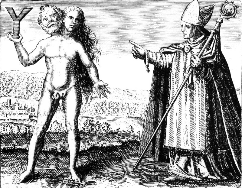 An engraving from Michael Maier's Symbola Aureae Mensae (1617) we see Albertus Magnus pointing to an alchemical androgyne holding the letter Y. Zola (42) explains, "The Y is, as Philo taught, the symbol of the Word which pierces the essence of being. The Nassine Gnostics taught that it represented the intimate nature of being, which is male and female and, as such, eternal."